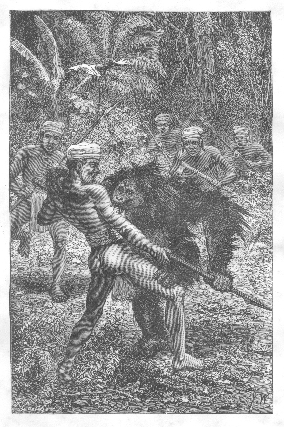 "Orang-Utan attacked by Dyaks" in Alfred Russel Wallace's The Malay Archipelago, 1869